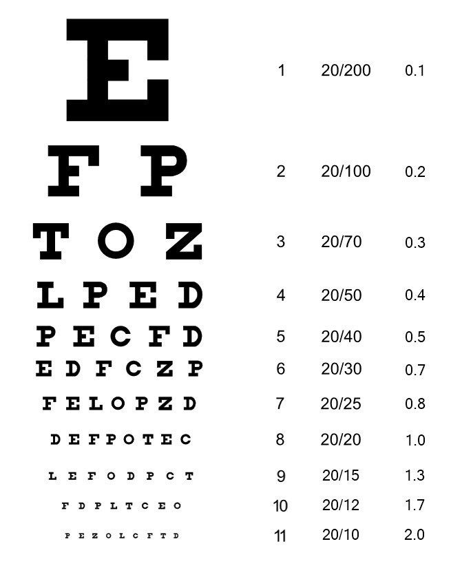 Sample Snellen chart with decimal scale